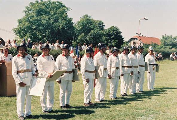 Centennial anniversary of voluntary firefighters' association in Klamoš, Czech Republic. Honorary members.